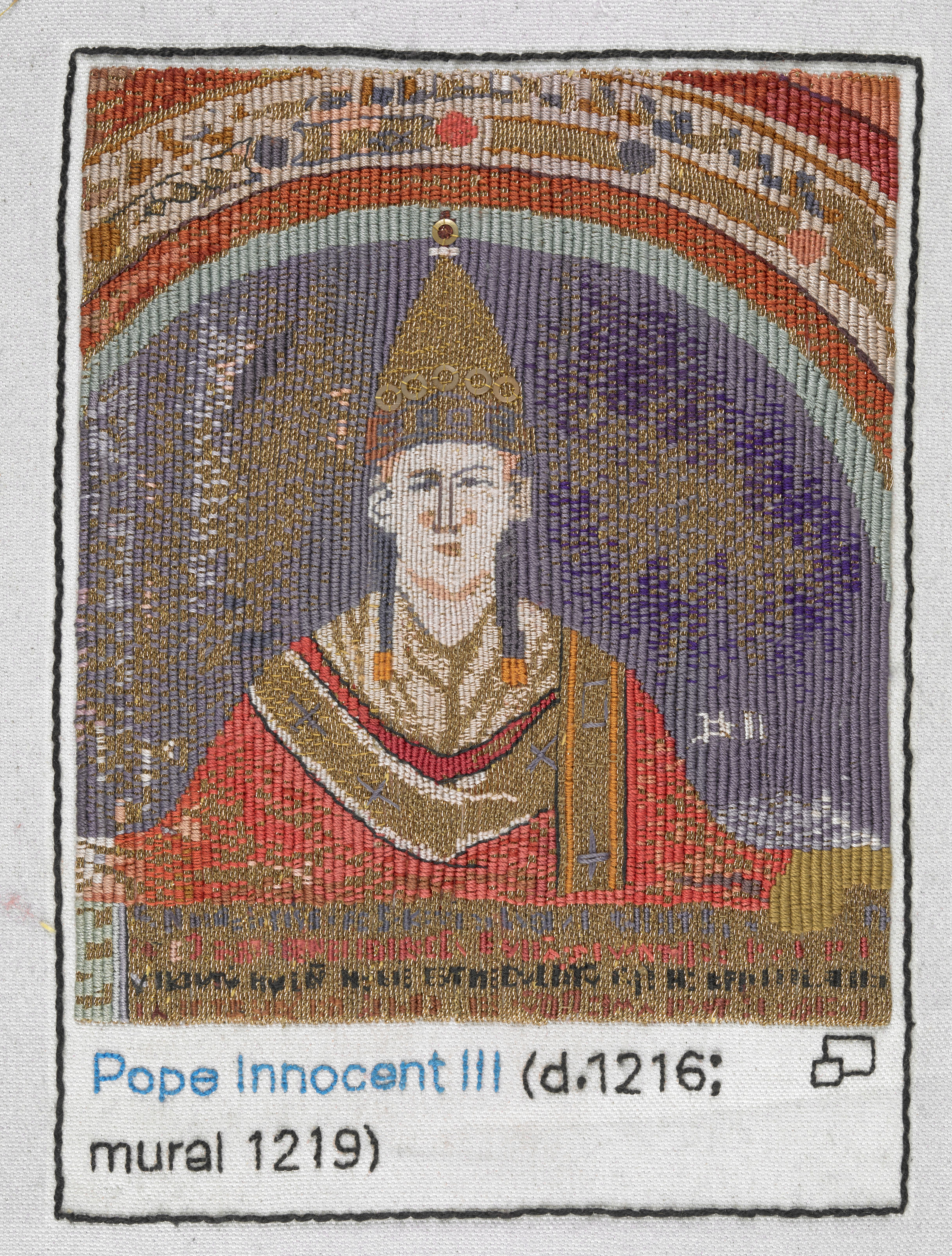 Detail from Magna Carta (An Embroidery), showing Pope Innocent III, as depicted on the Wikipedia article Magna Carta on 15 June 2014